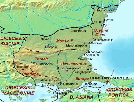 Map of the Diocese of Thrace (Dioecesis Thraciae) ca. 400 AD, showing the subordinate provinces and the major cities.